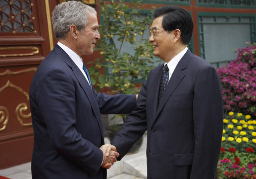 President George W. Bush shakes hands with China's President Hu Jintao following his visit and meeting Sunday, Aug. 10, 2008, with the Chinese leader at Zhongnanhai, the Chinese leaders compound in Beijing.